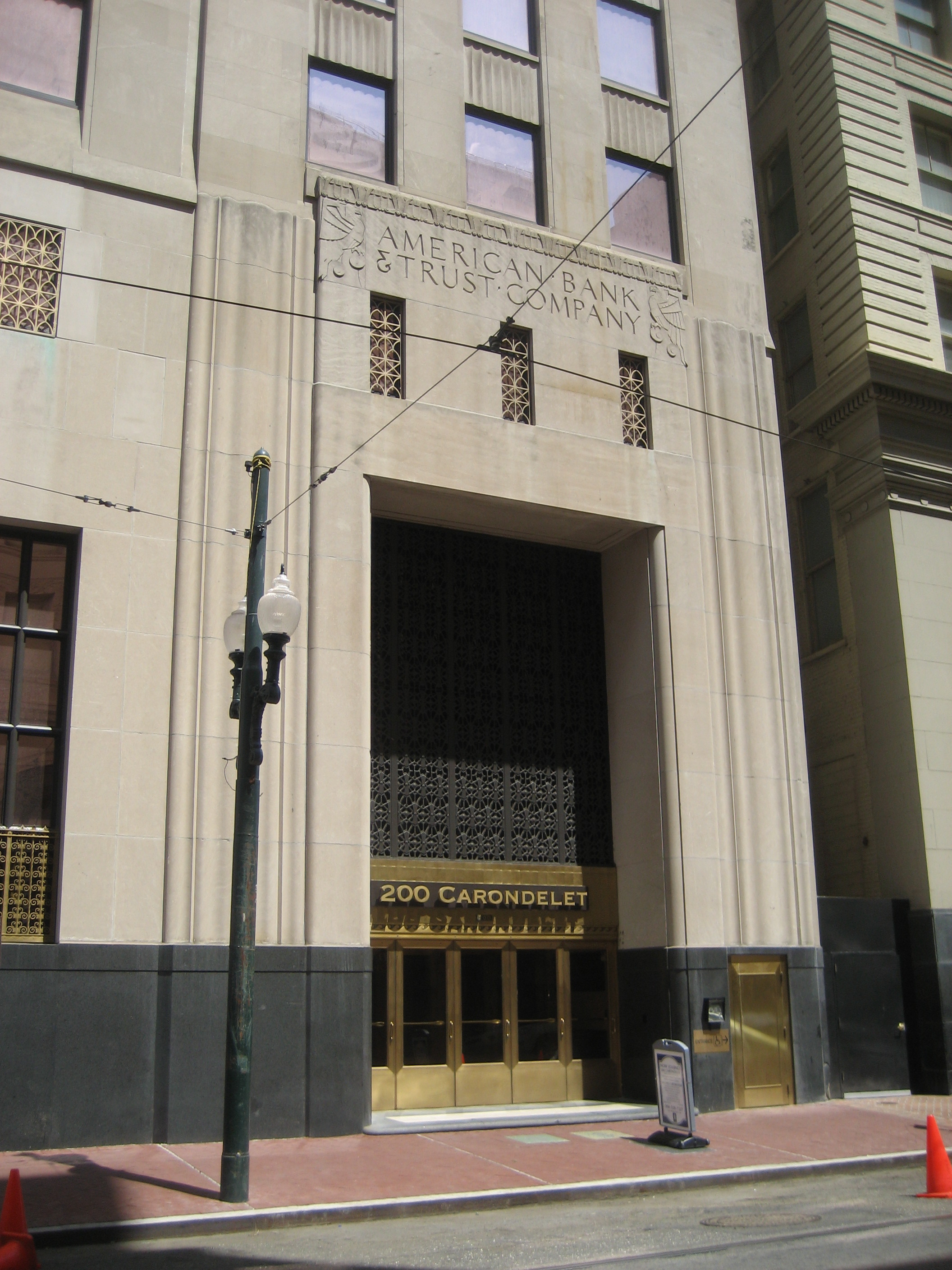 Carondelet Street, New Orleans: 200 Carondelet Street building, former American Bank Building